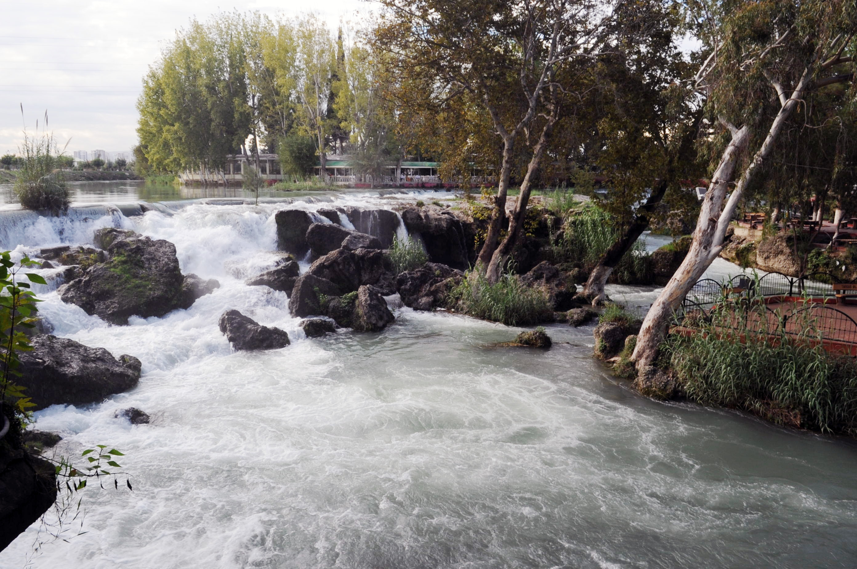 Water pours down the Berdan River waterfall, a popular picnic area for Tarsus residents, Nov. 14, 2012, in Tarsus, Turkey. The main headwaters of the river are located in the Toros Mountains. The foundations of the city can be traced back 5,000 years.